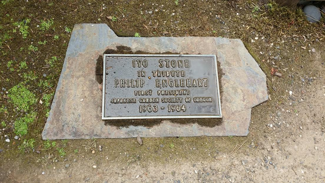 Iyo Stone Plaque from the Japanese Garden in Portland, Oregon